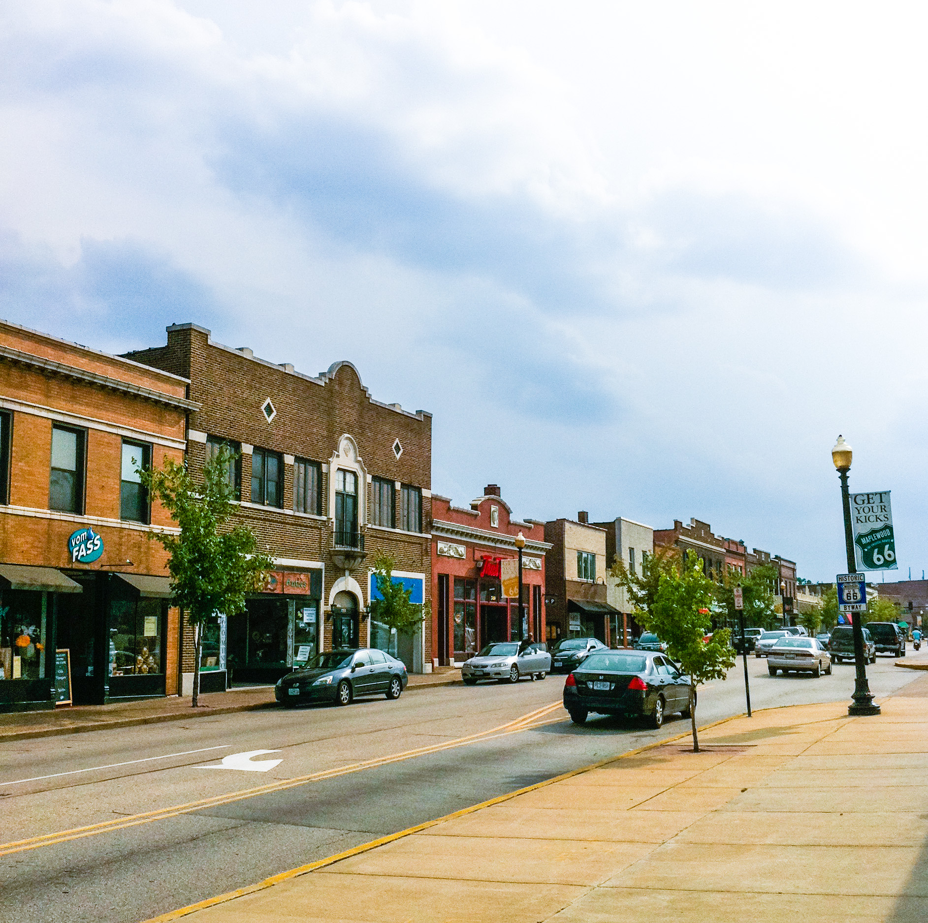 Manchester Road in Maplewood, Missouri. Maplewood Commercial Historic District at Manchester and Sutton